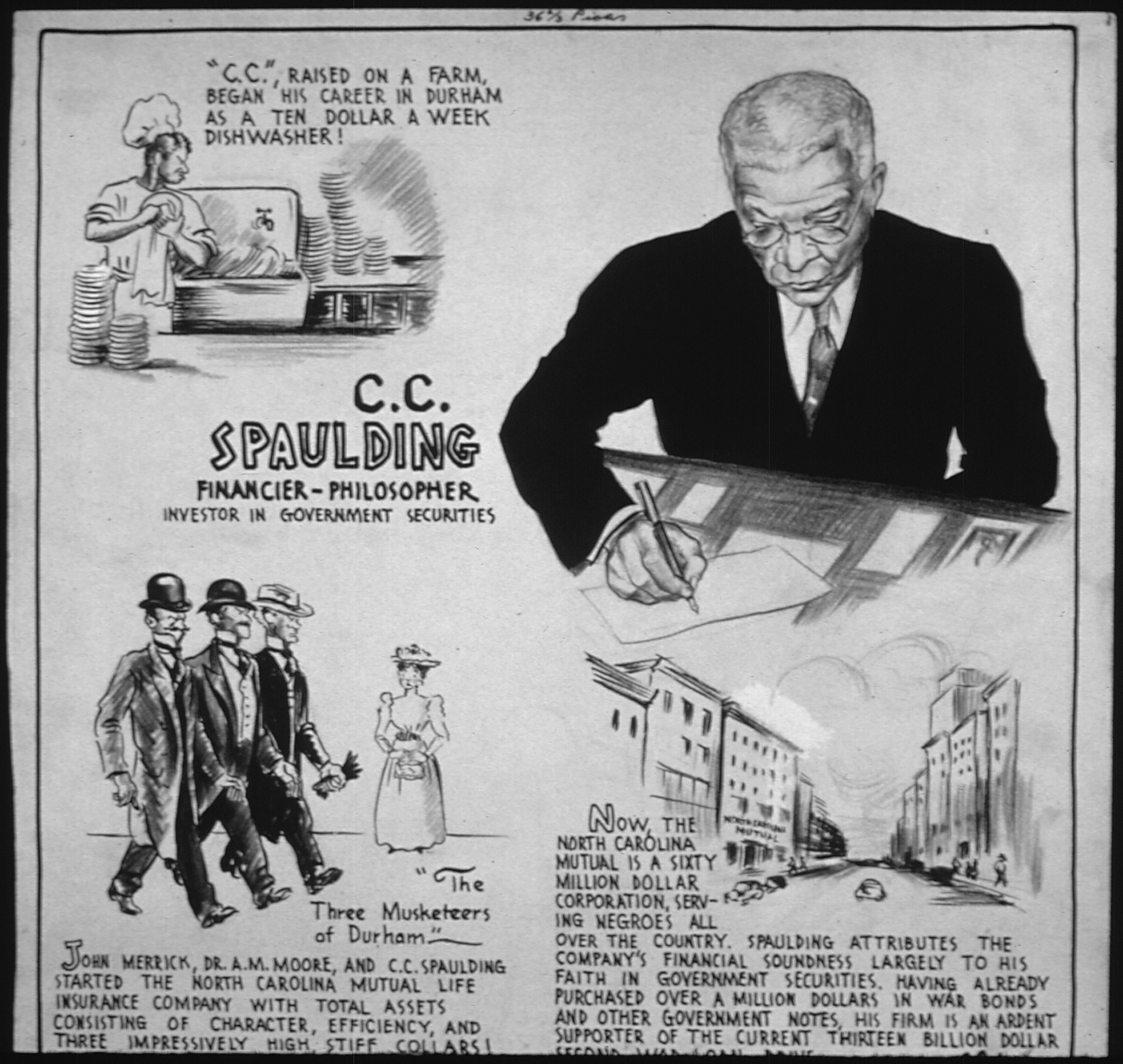 Scope and content: C. C. Spaulding - with biographical paragraphs.